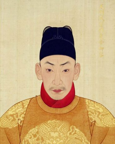 Portrait of Emperor Wuzong of Ming Dynasty China